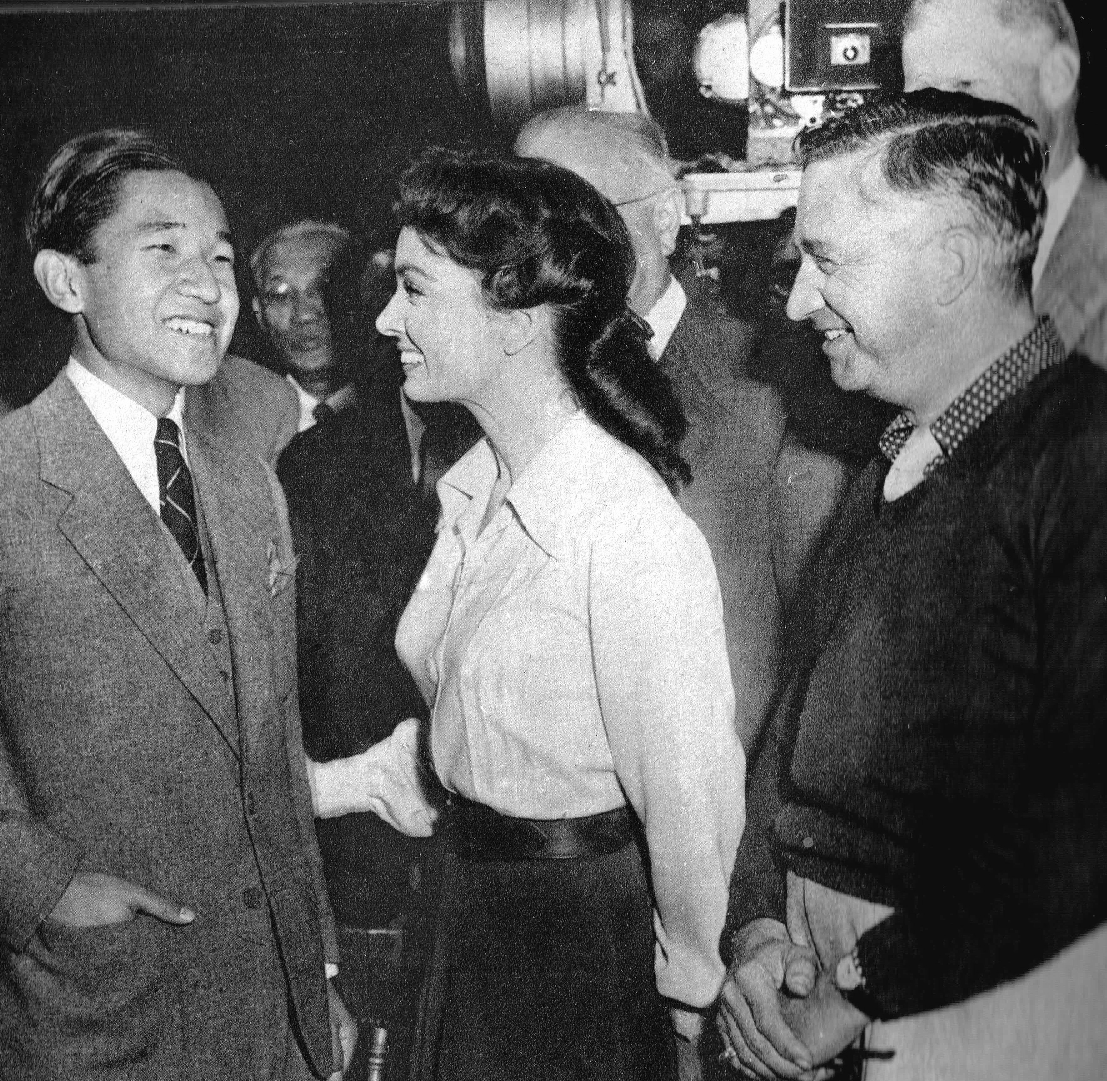 Crown Prince Akihito [now the Emperor] visits MGM studios (The Crown prince answers the greetings of leading lady Ann Blyth. The director on the right is Mervyn LeRoy.) (photo from Japanese movie magazine)